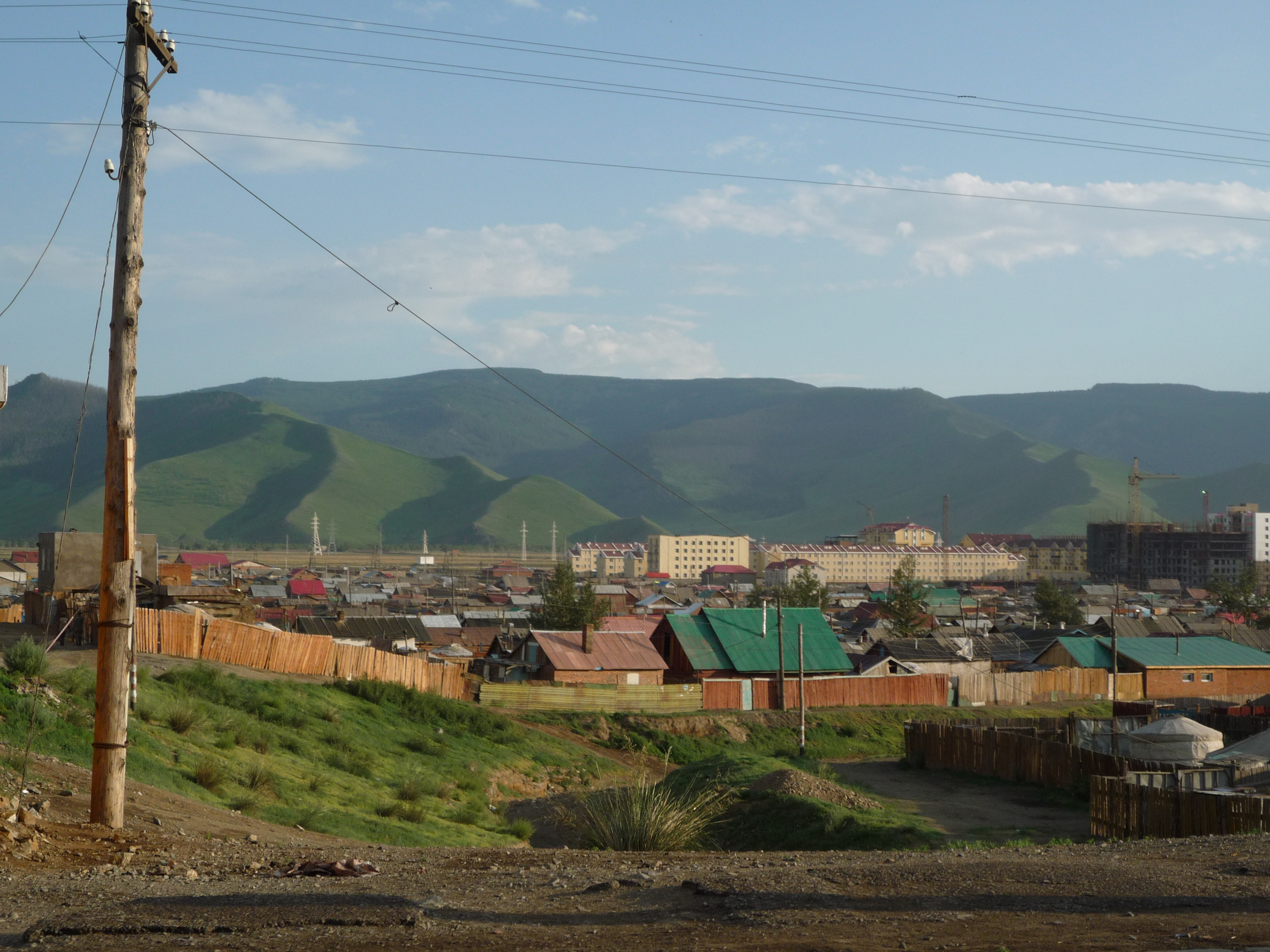 Bogd Khan Uul Mountб view from Ulan Bator, Mongolia